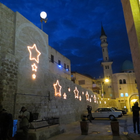 Greek Catholic Church of Peter and Paul, Shefaram, Israel